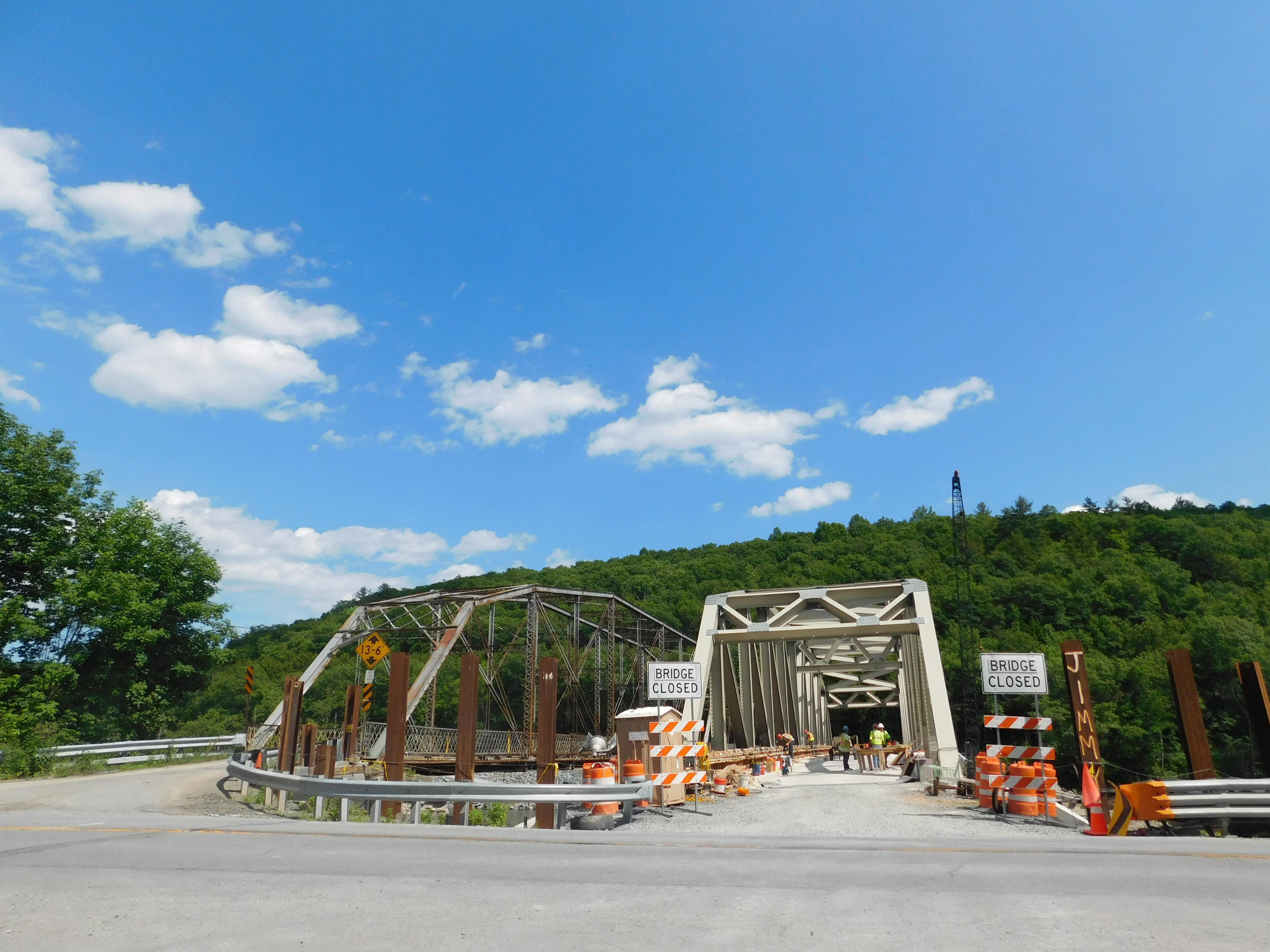 Construction of the new Pond Eddy Bridge in Pond Eddy, New York in June 2018.